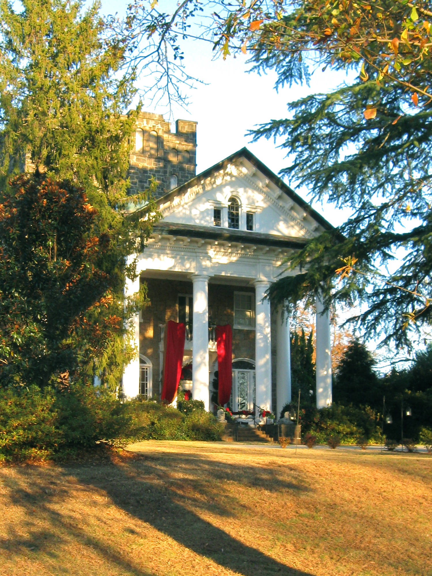 Also known as the "Gassaway Mansion," the structure, constructed 1919-24, is a blend of Neo-Gothic and Neo-Classical styles.